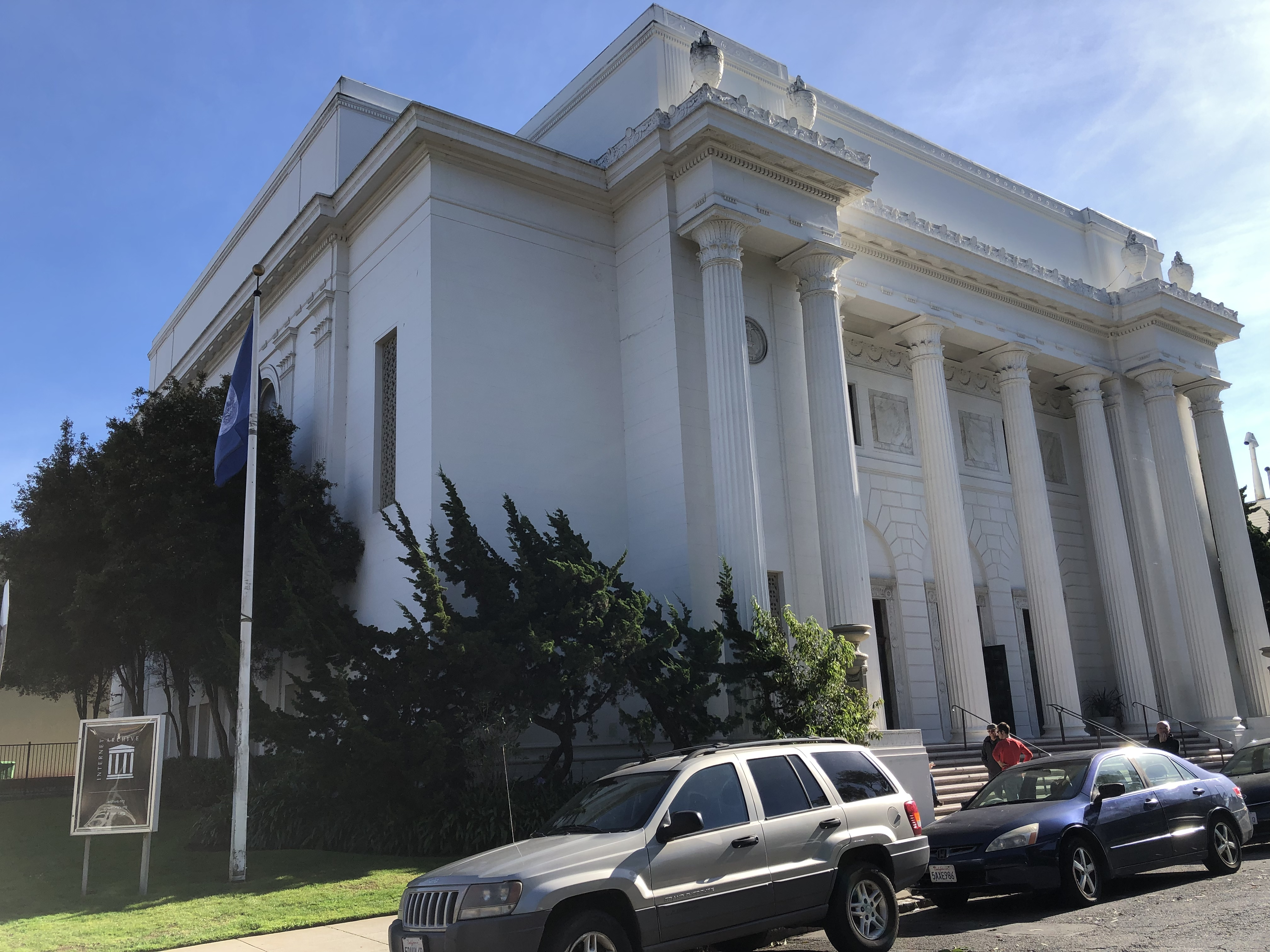 2018-1130 - Internet Archive visit by Wikimedians after WikiCite conference. Andrew Lih and Dario Taraborelli led a contingent of Wikimedians to meet Brewster Kahle and staff of IA.